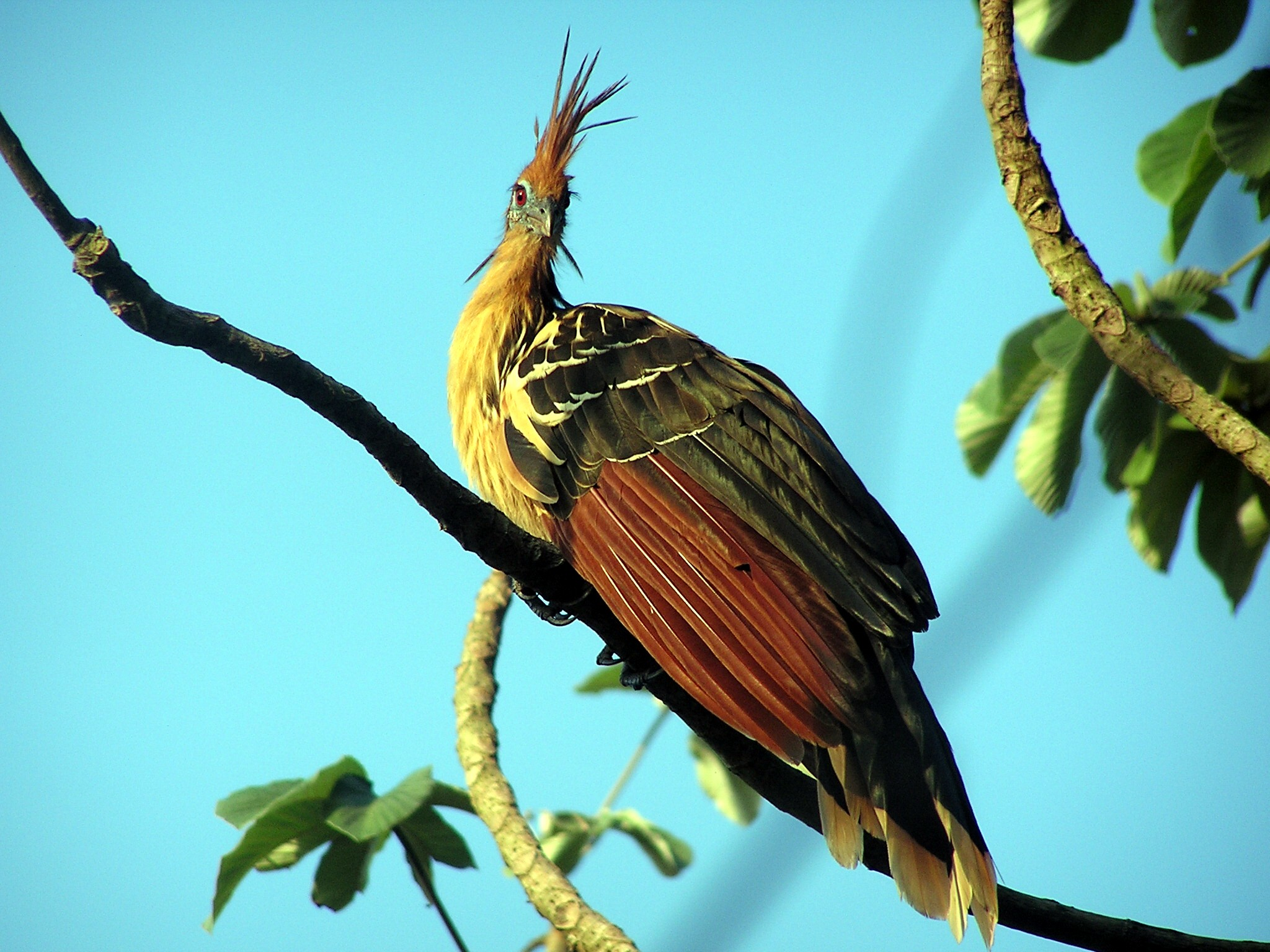 Hoatzin (Opisthocomus hoazin); Beni River, Bolivia. Local name: Serere (Bolivia).